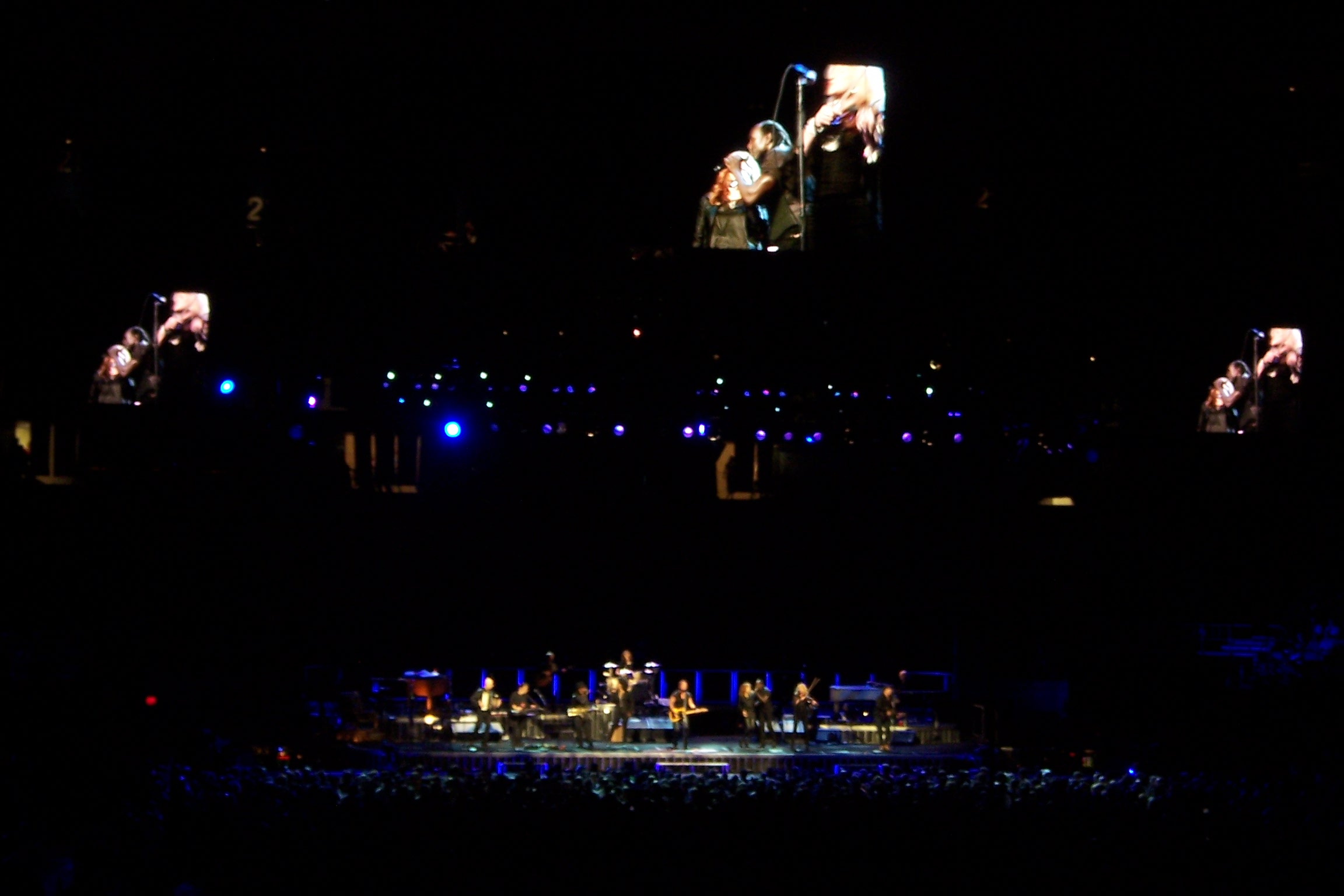 Bruce Springsteen and the E Street Band performing "Hard Times Come Again No More" as the first encore song during their 2009 tour. Meadowlands, New Jersey.